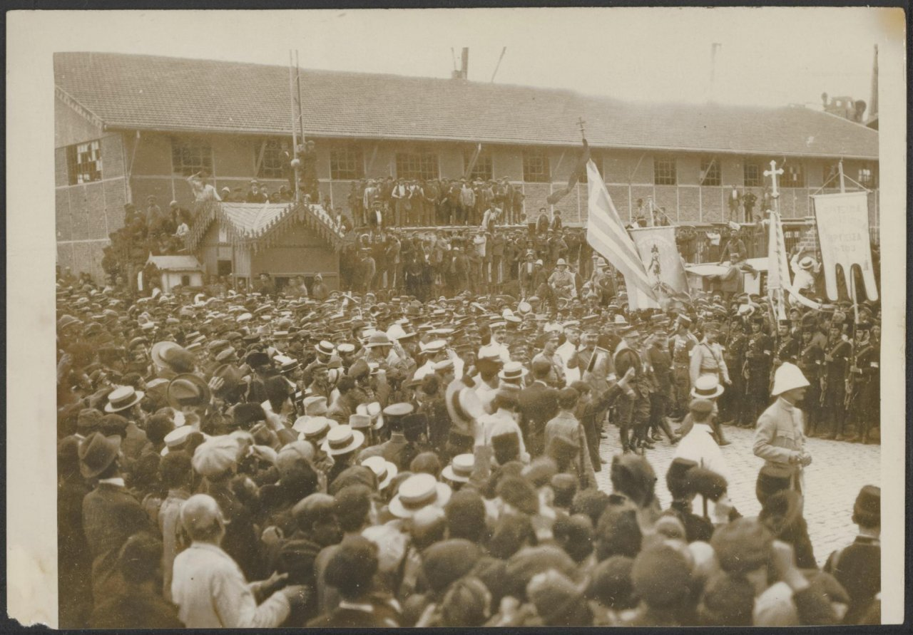 Triumphal progress through Salonica of Colonel Christodoulou and his men after the fight at Serres in which the Greeks resisted the advance of the Bulgars